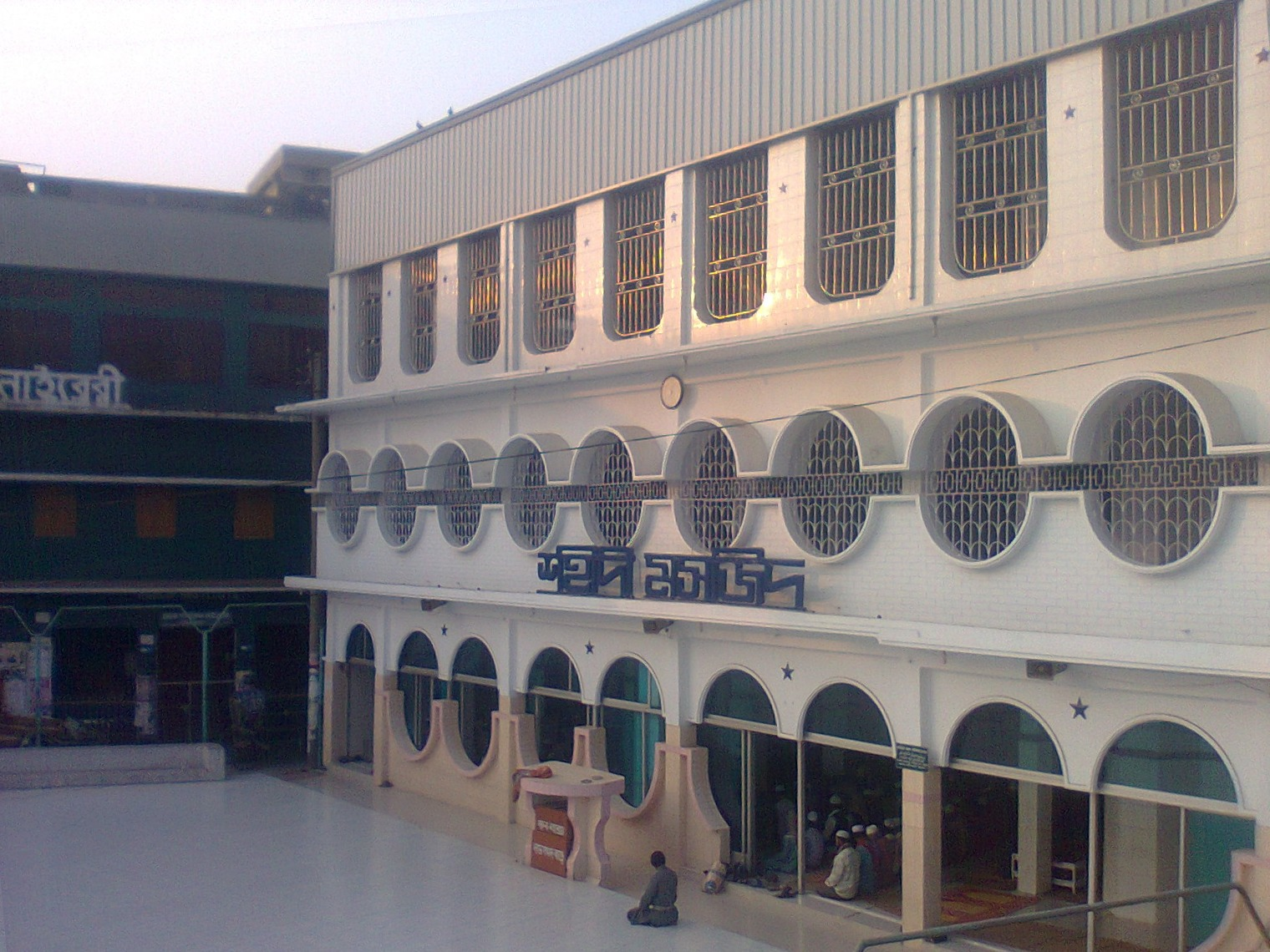 This Is Kishoreganj's Biger mask ( Shohede mosjid )